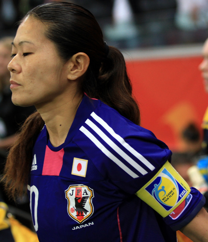 Homare Sawa captaining Japan in the 2011 FIFA Women's World Cup